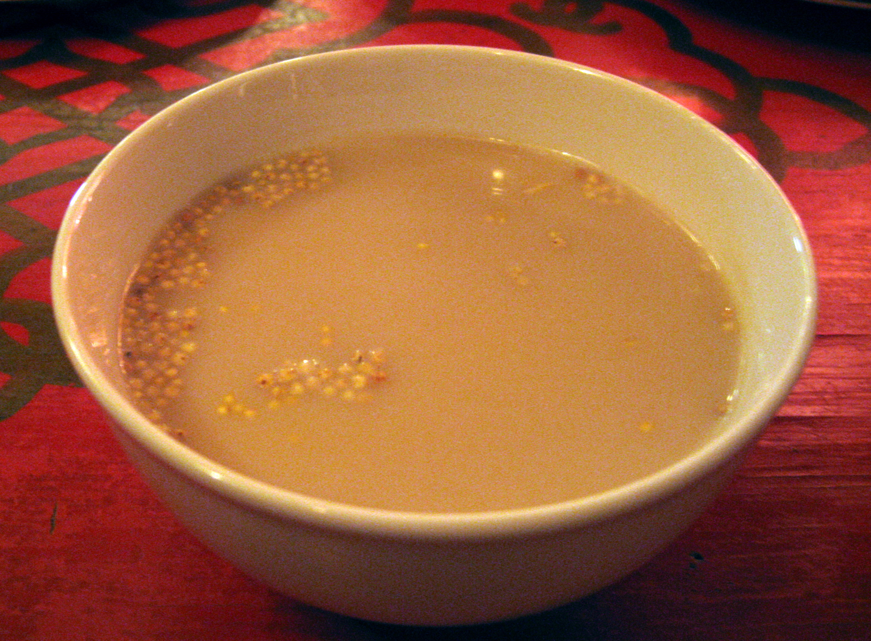 The everyday beverage of Mongolian, "Süütei Tsai" is salted milk tea.